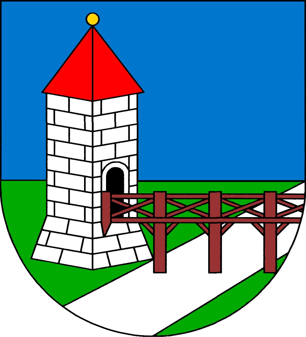 Municipal coat of arms of Týnec nad Labem town, Kolín District, Czech Republic, in version used since 2007.